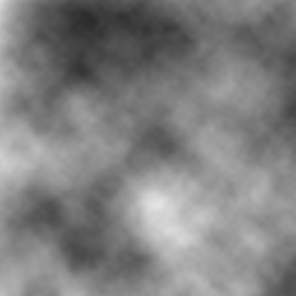 The result of a 2D value noise